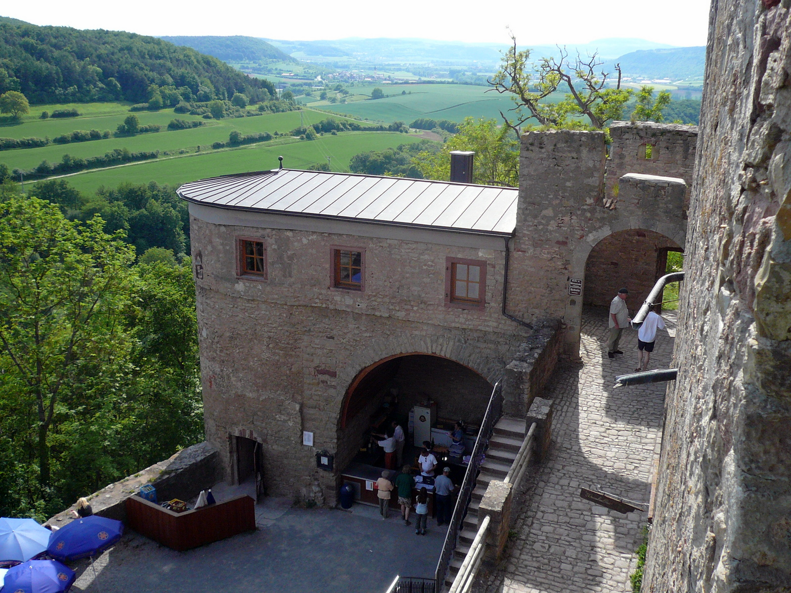 Trimburg, Germany - new building in the south